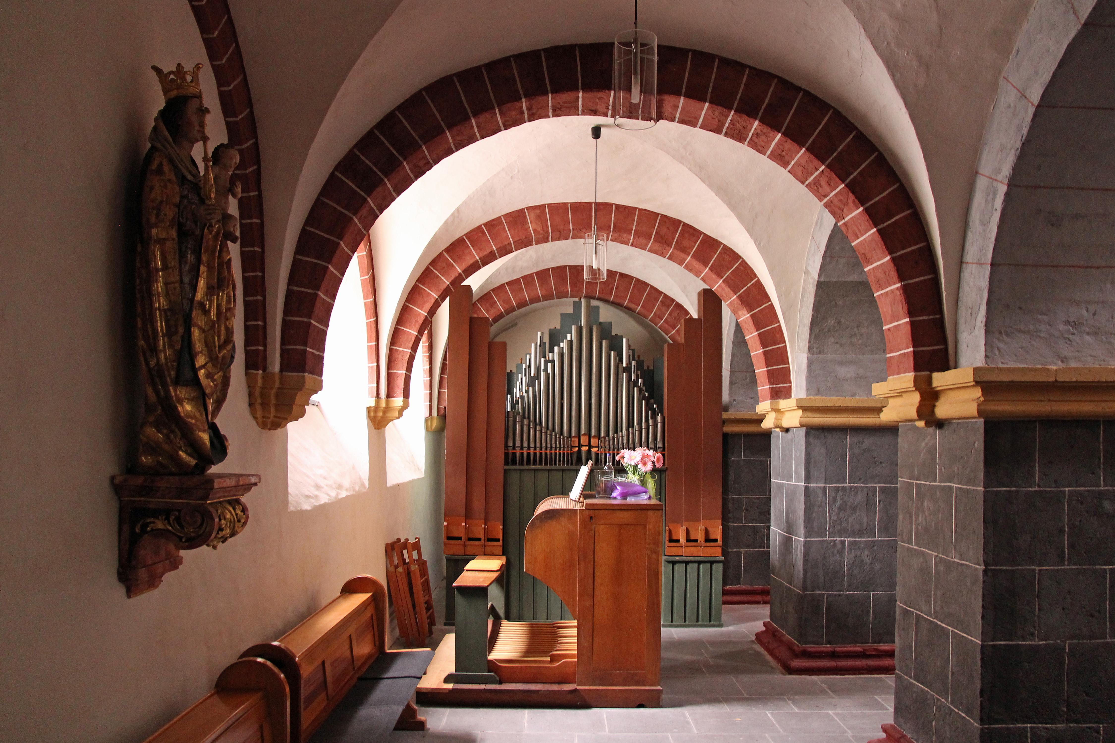 Old-St. Servatius church in Koblenz